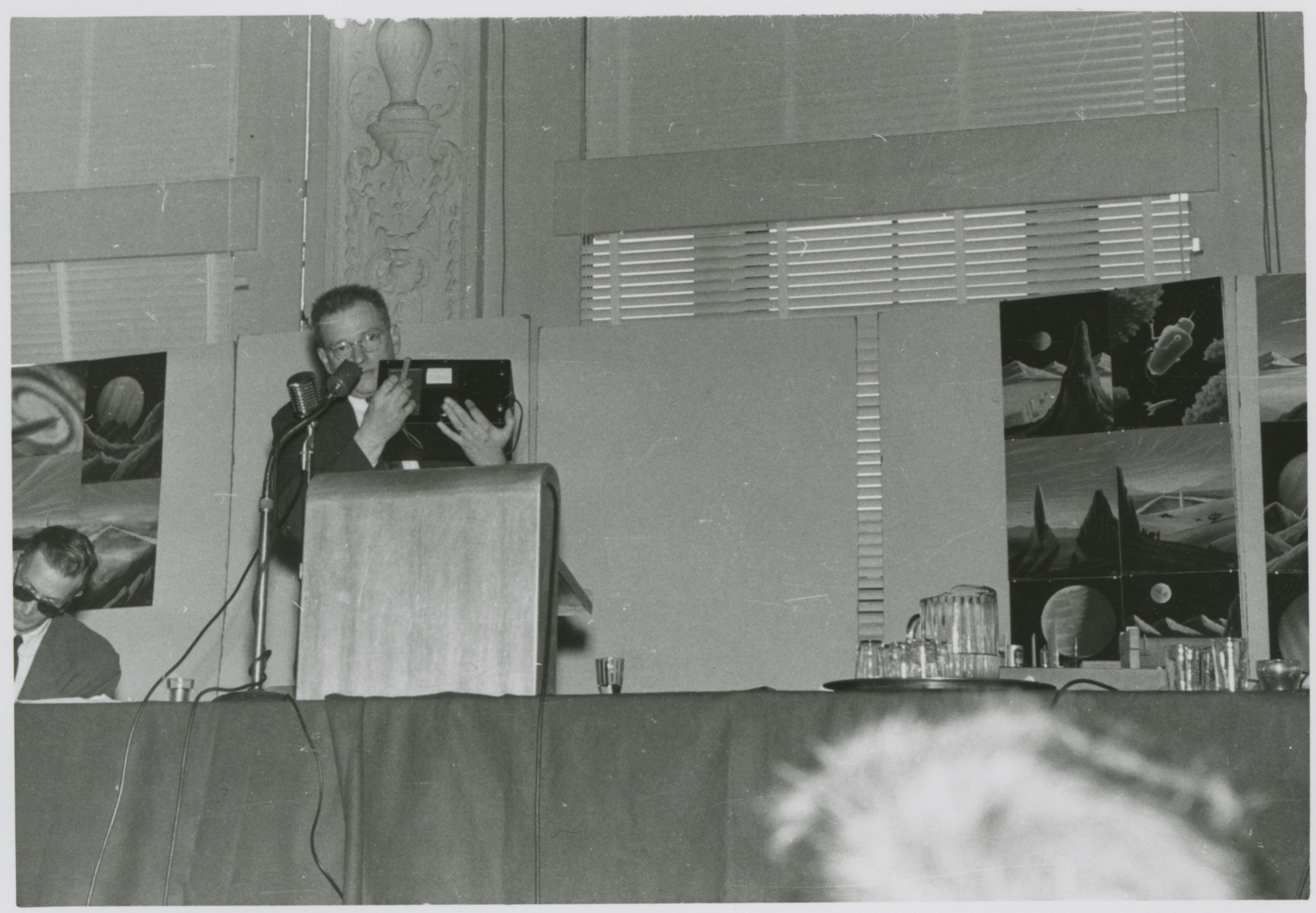 14th World Science Fiction Convention, 1956. John W. Campbell at the podium.